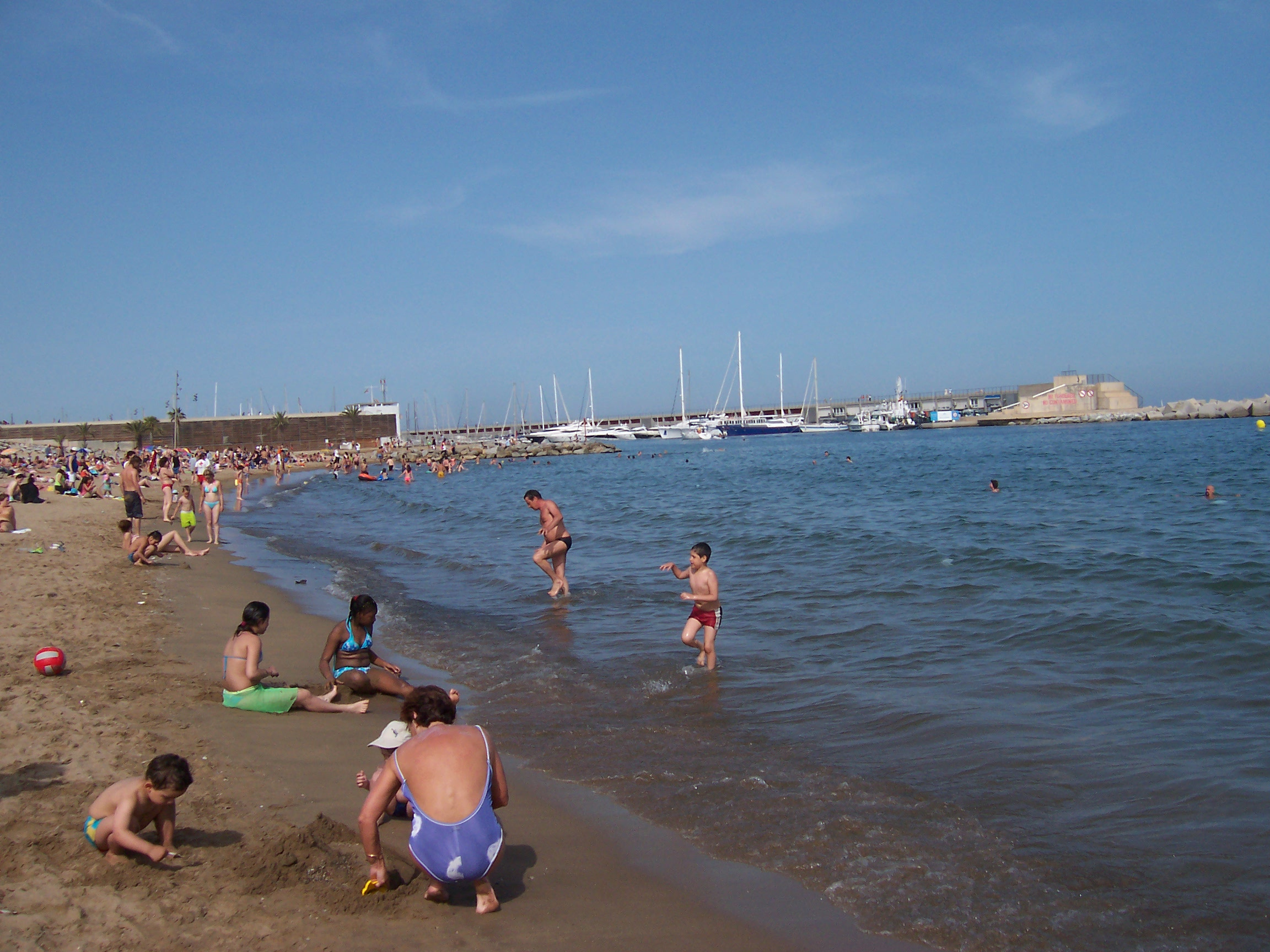 Barceloneta Beach, in Barcelona.